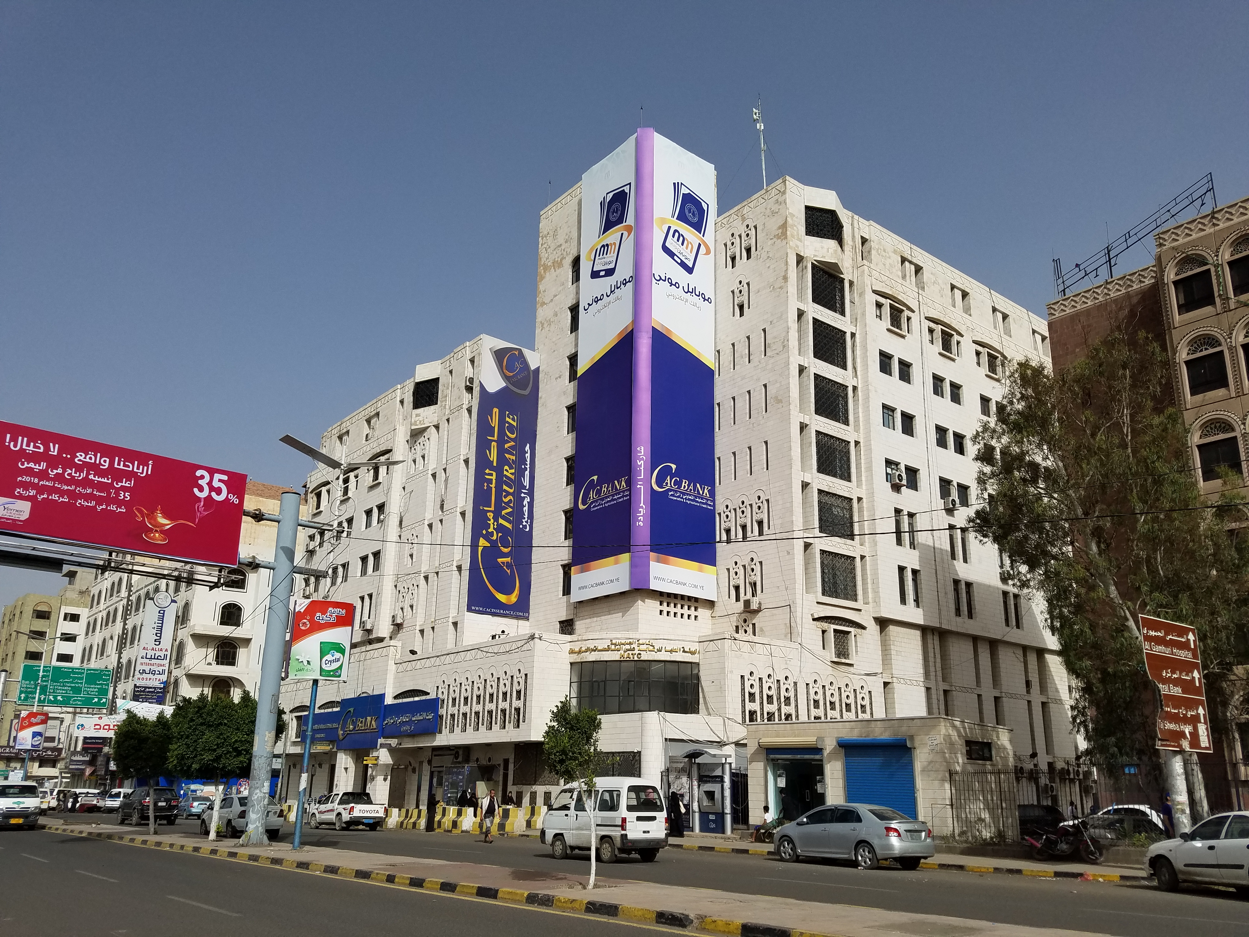 صورة لبنك التسليف التعاوني الزراعي